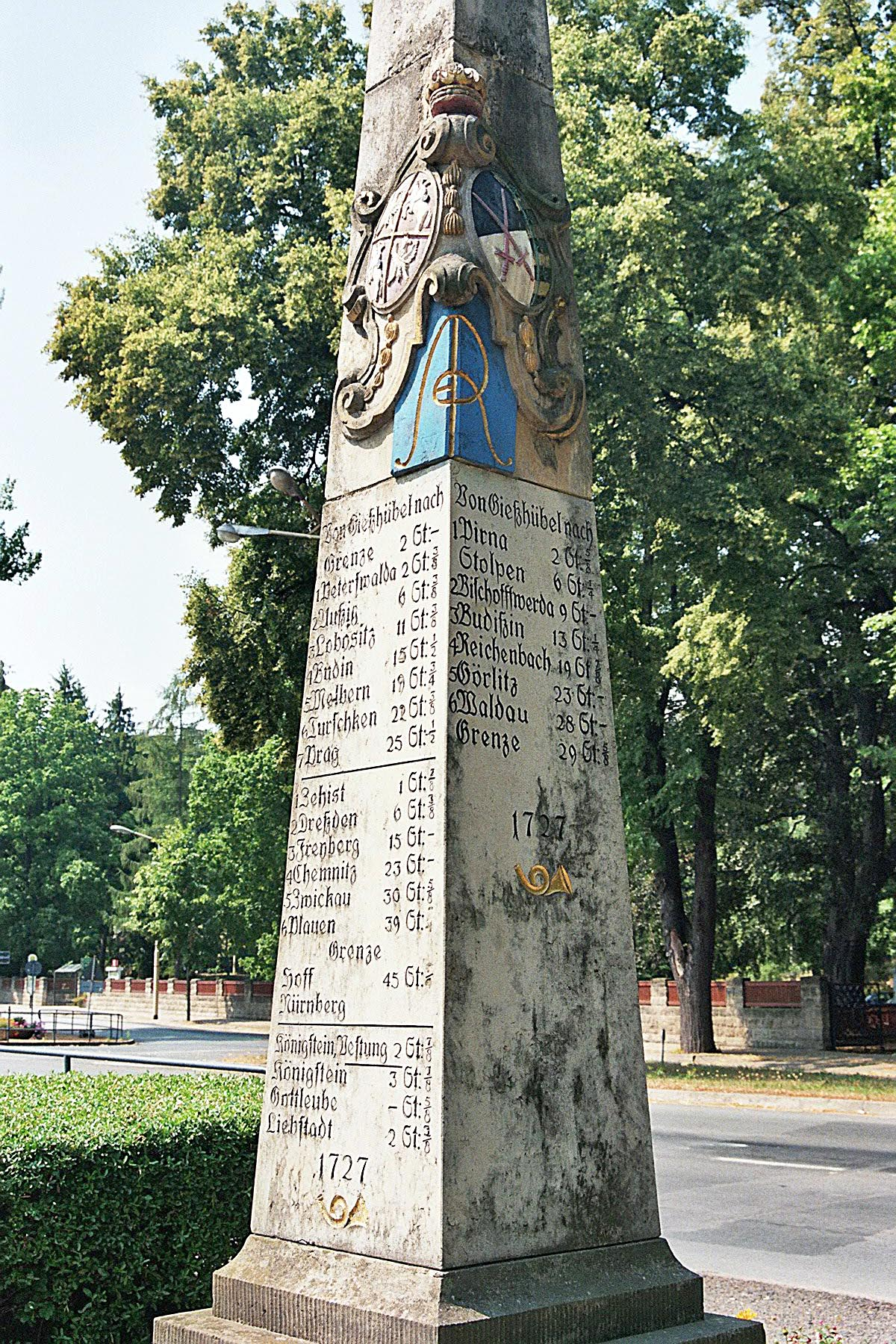 Berggießhübel: The electoral saxonian coat of arms and the table of distances on the post mile pillar from 1727. The distances are expressed as "hours" (1 hour is equivalent to 4,531 km).